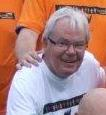 Parliamentary Secretary for Immigration and Multicultural Affairs Senator Kate Lundy pulled on her football boots to promote Harmony Day in the Pollies v Professionals match. Senator Lundy led a bipartisan team of football-playing politicians including federal ministers Stephen Conroy, as well as Alan Griffin, Bert van Manen and Senator Steve Fielding. SBS presenter and former Socceroo Craig Foster led the Professionals, with team members including former Socceroos Kimon Taliadoris, Zjelko Kalac and David Zdrilic and SBS football personalities Les Murray and David Basheer.